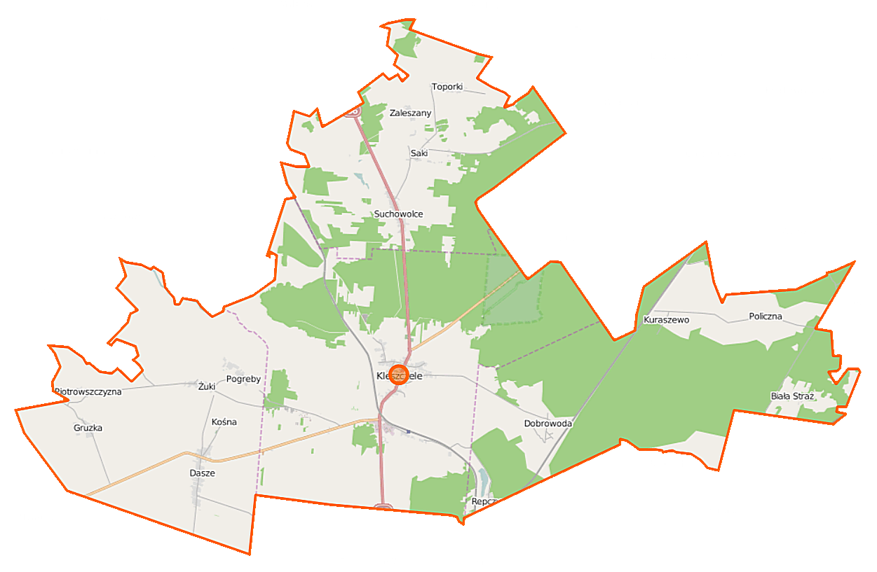 Map of Gmina Kleszczele, Poland This map of Kleszczele (gmina) was created from OpenStreetMap project data, collected by the community. This map may be incomplete, and may contain errors. Don't rely solely on it for navigation. Border coordinates52.663523.1695←↕→23.512152.5271